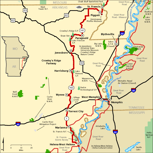 Map of Crowley's Ridge Scenic Byway in Arkansas.